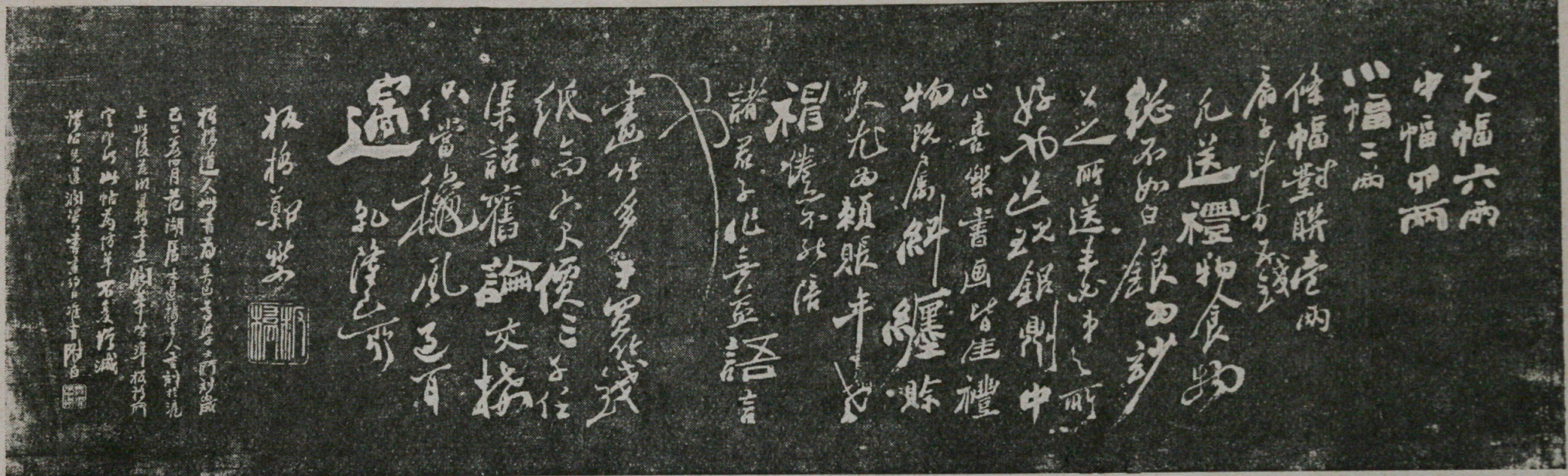 Rubbing of Price List by Zheng Xie. It was engraved on stone/wood panel in Shanghai by a later collector.